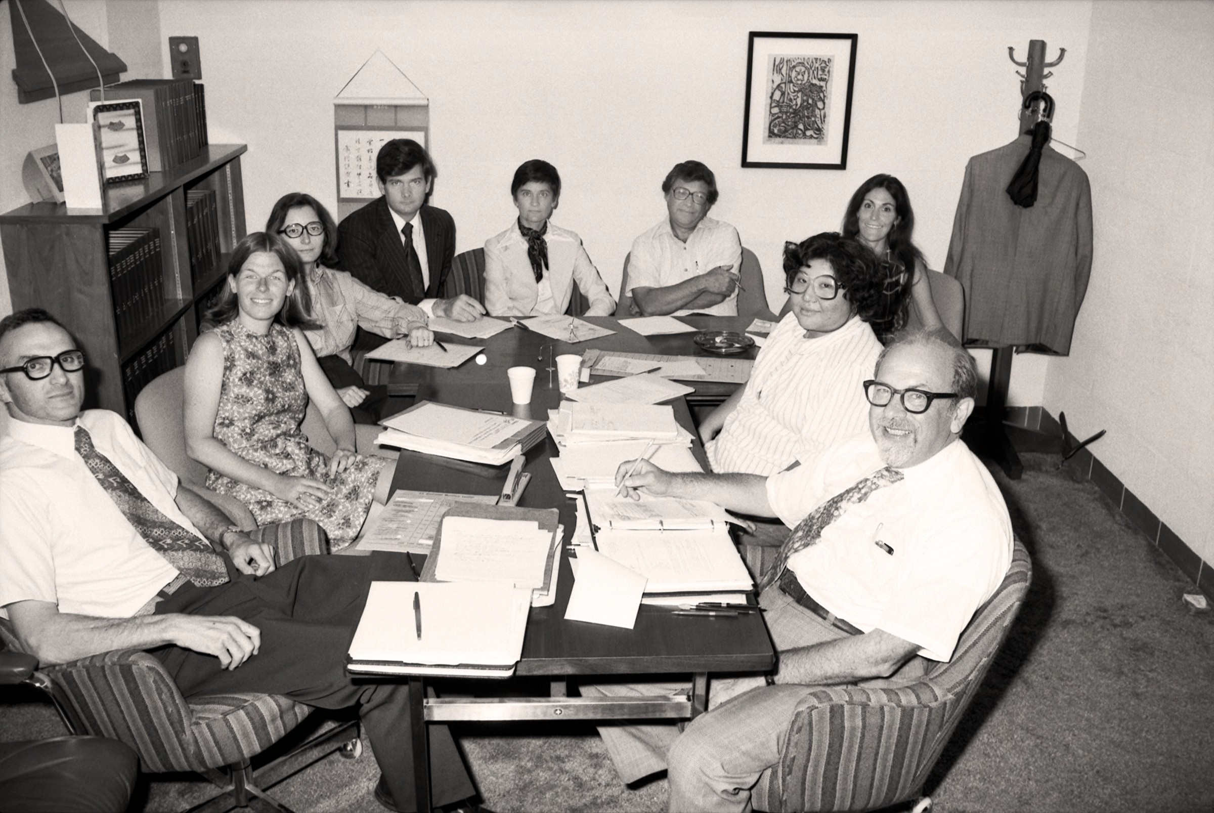 Clockwise around the table from left: Ben Erdman, Betsy Humphreys, Duane Arenales, Richard Dick, PhD, Grace McCarn, John Cox, Laura Kassebaum, Lillian Kozuma, and Joseph Leiter, PhD